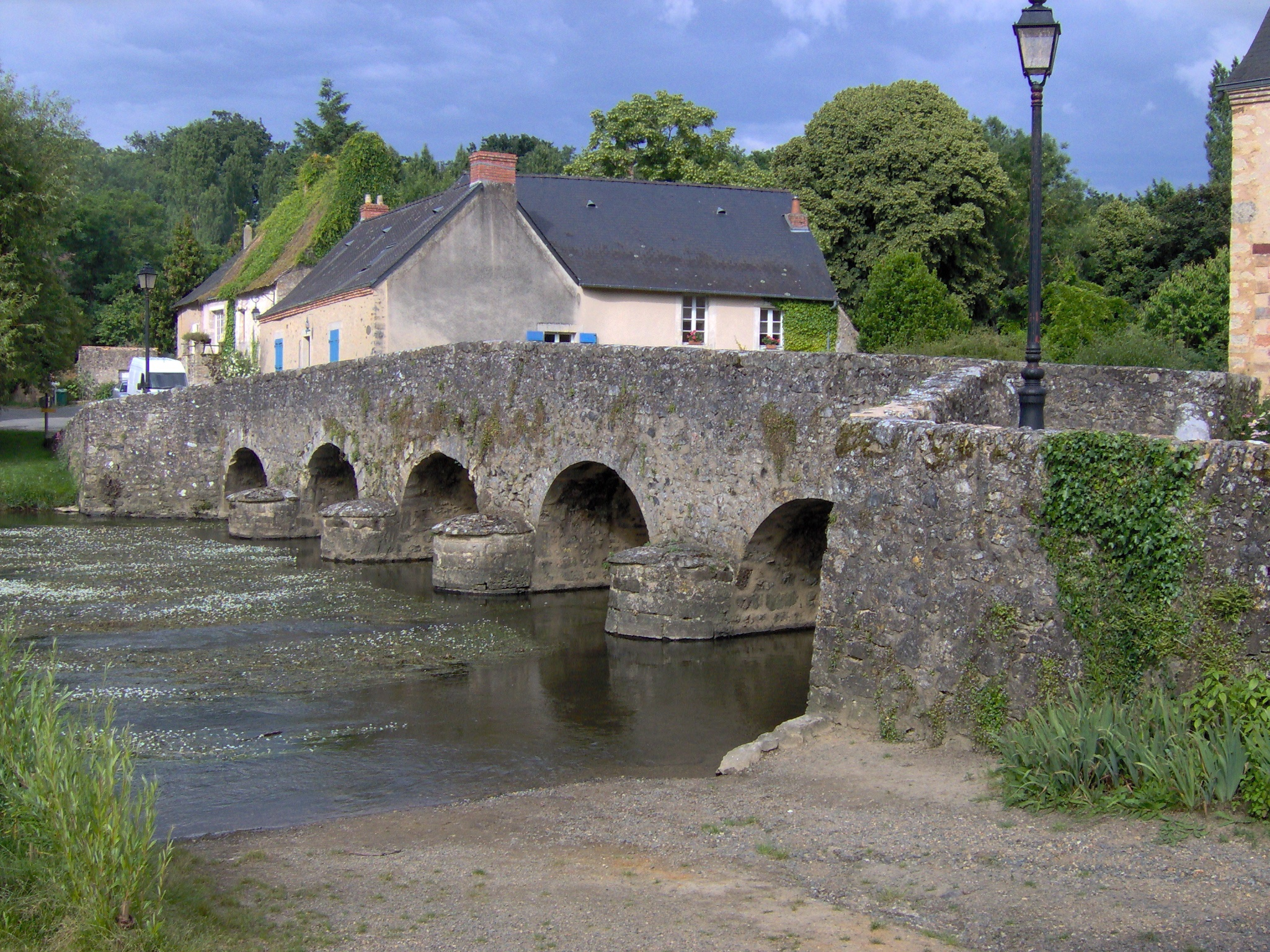 The old bridge – Romanic architecture – of Asnières on Vègre, Sarthe, France